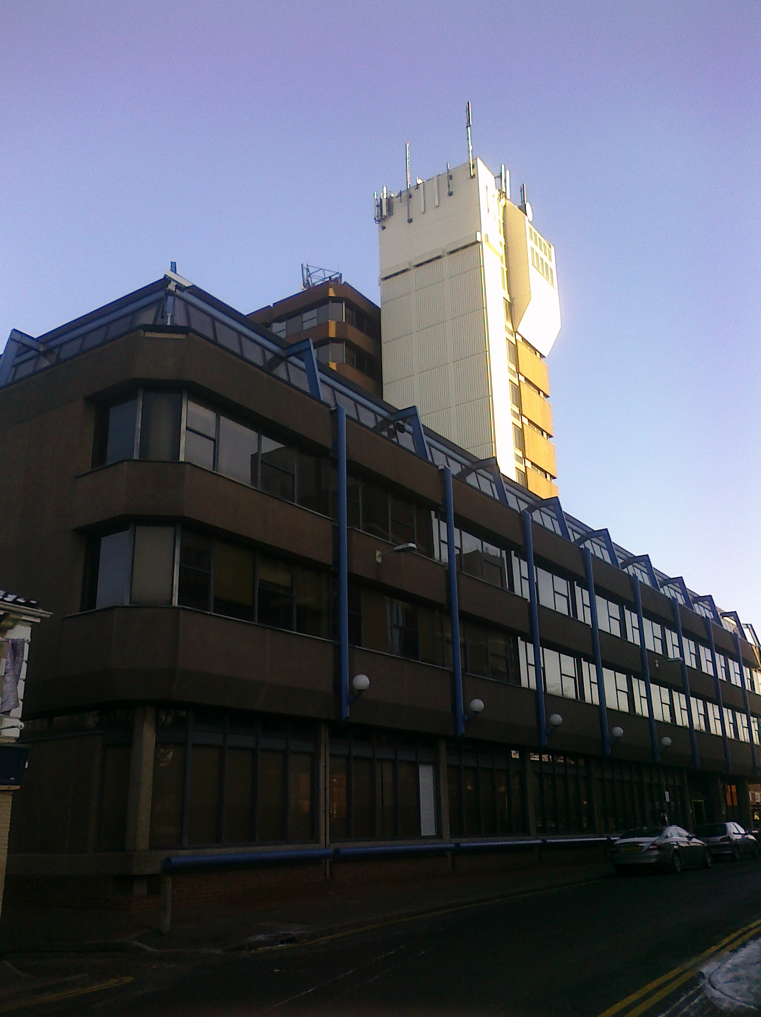 A picture of Norfolk Tower (Surrey Street, Norwich) taken in January by Miguel Rios